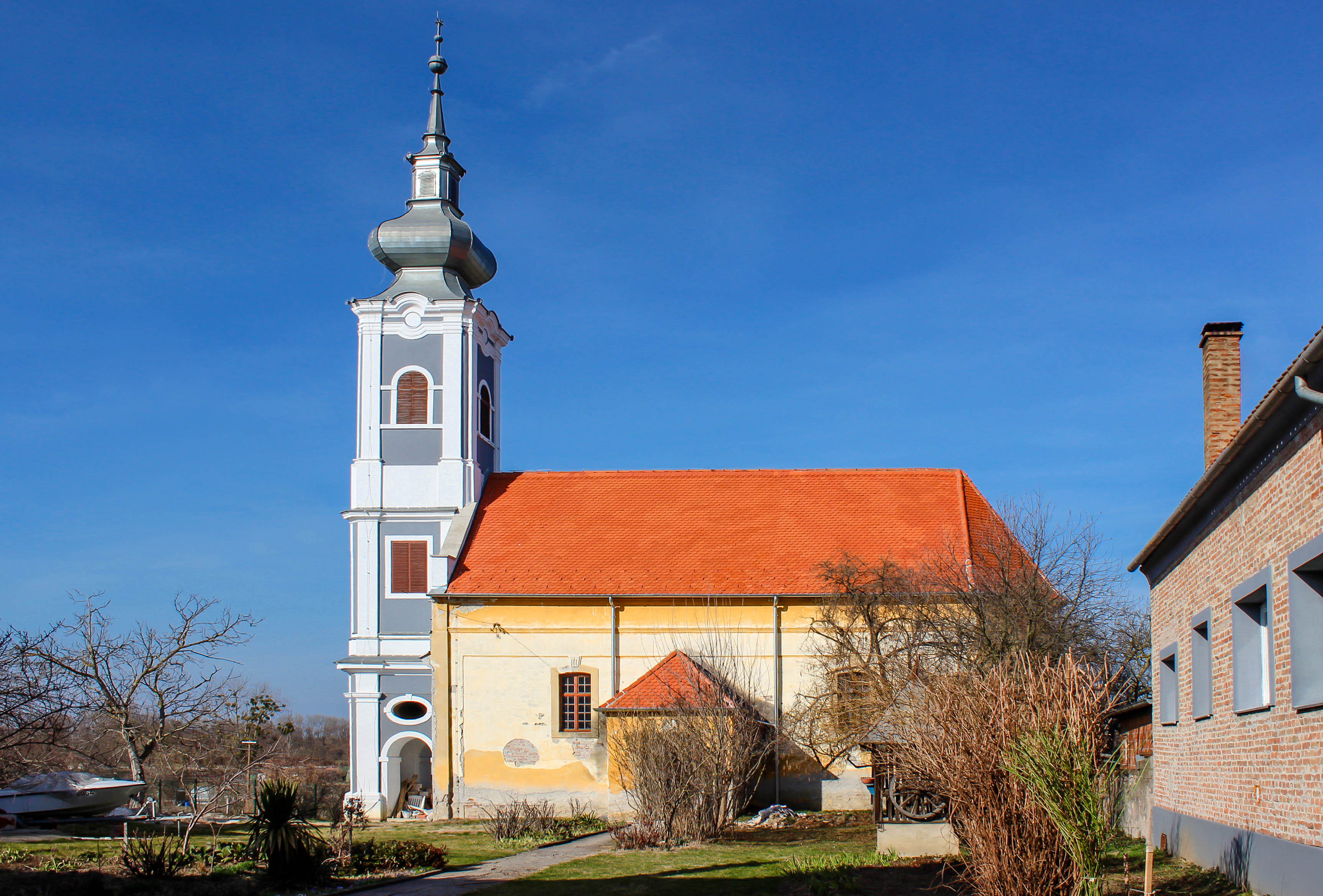 Church